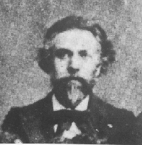 Anthony II, King of Araucania and Patagonia